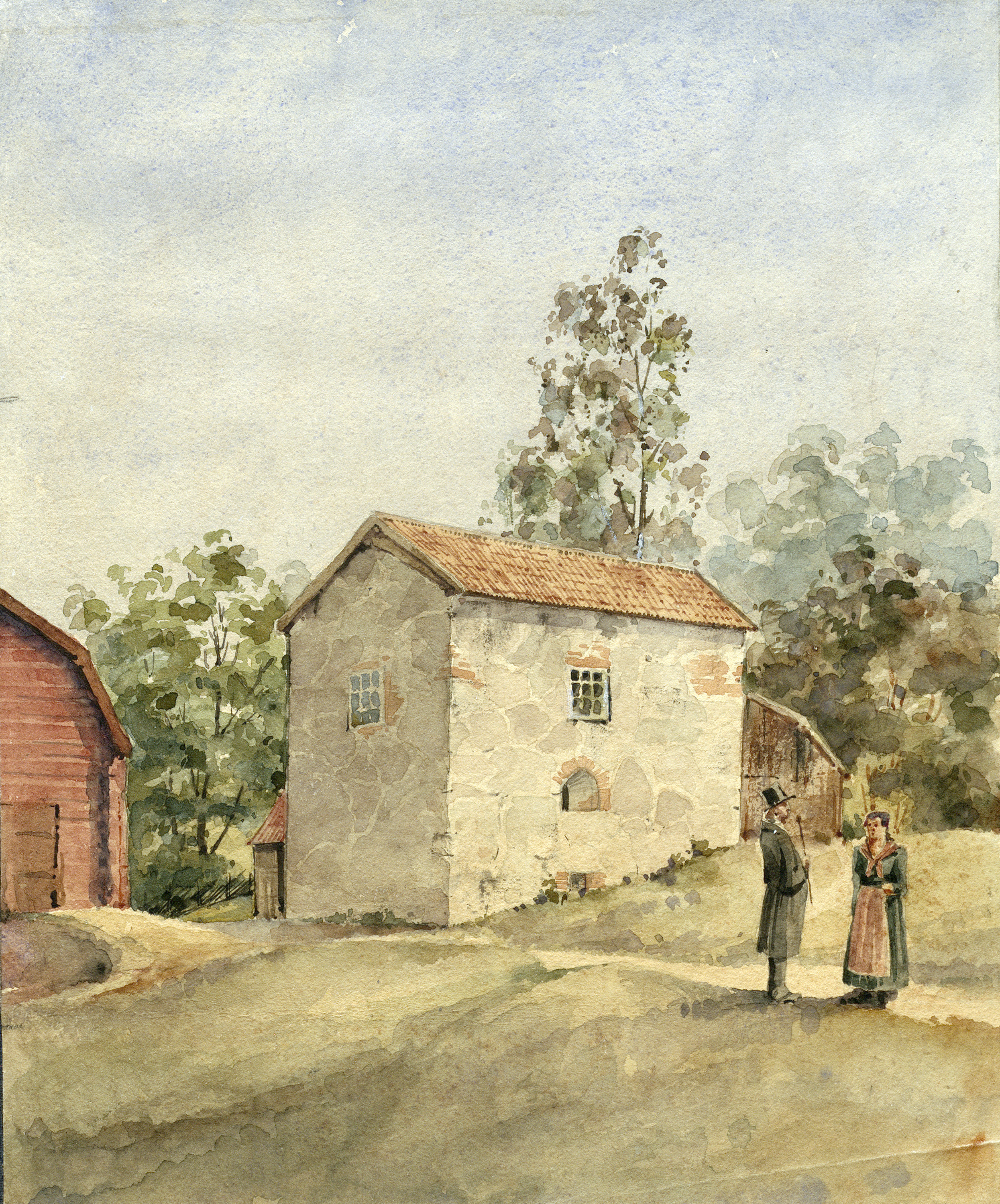 The Guild house. Medieval stone building near Forsa church. Watercolour by Agi Lindegren, from 1880 Gillestugan. Medeltida stenbyggnad nära Forsa kyrka. Akvarell av Agi Lindegren, från 1880 Collection: Probably the Liljegren Collection / The Collection of drawings, watercolours and prints, Archives of the Swedish National Heritage Board Parish (socken): Forsa Province (landskap): Hälsingland Municipality (kommun): Hudiksvall County (län): Gävleborg Photograph by: Lars Kennerstedt Date: 2014 Persistent URL: Read more about the photo database (in english)